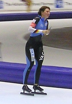 Daniela Anschütz-Thoms (GER) at a World Cup in Thialf (Heerenveen, The Netherlands)